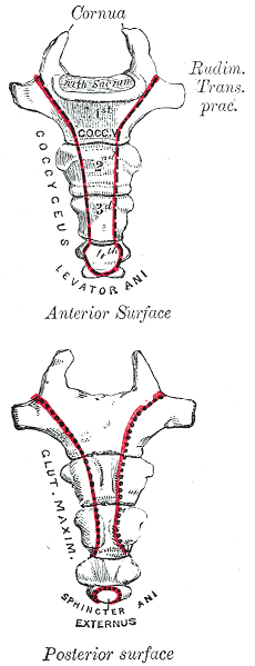 Coccyx.